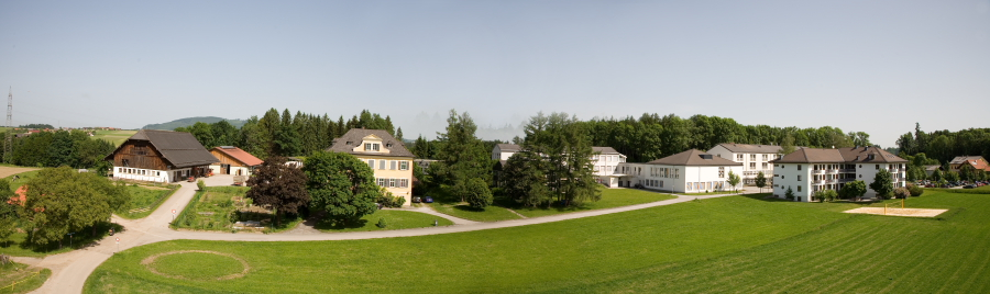 The School (wide angle)